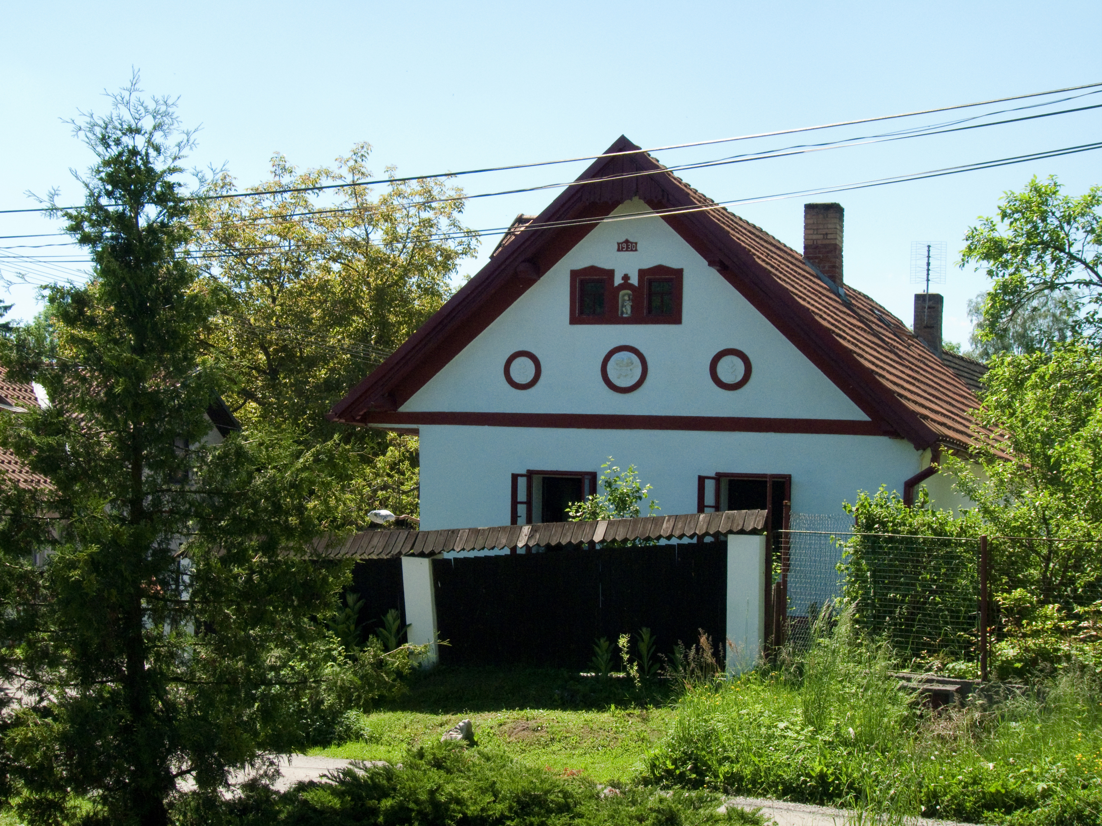 House No 27 in the village of Záříčí, Tábor district, Czech Republic